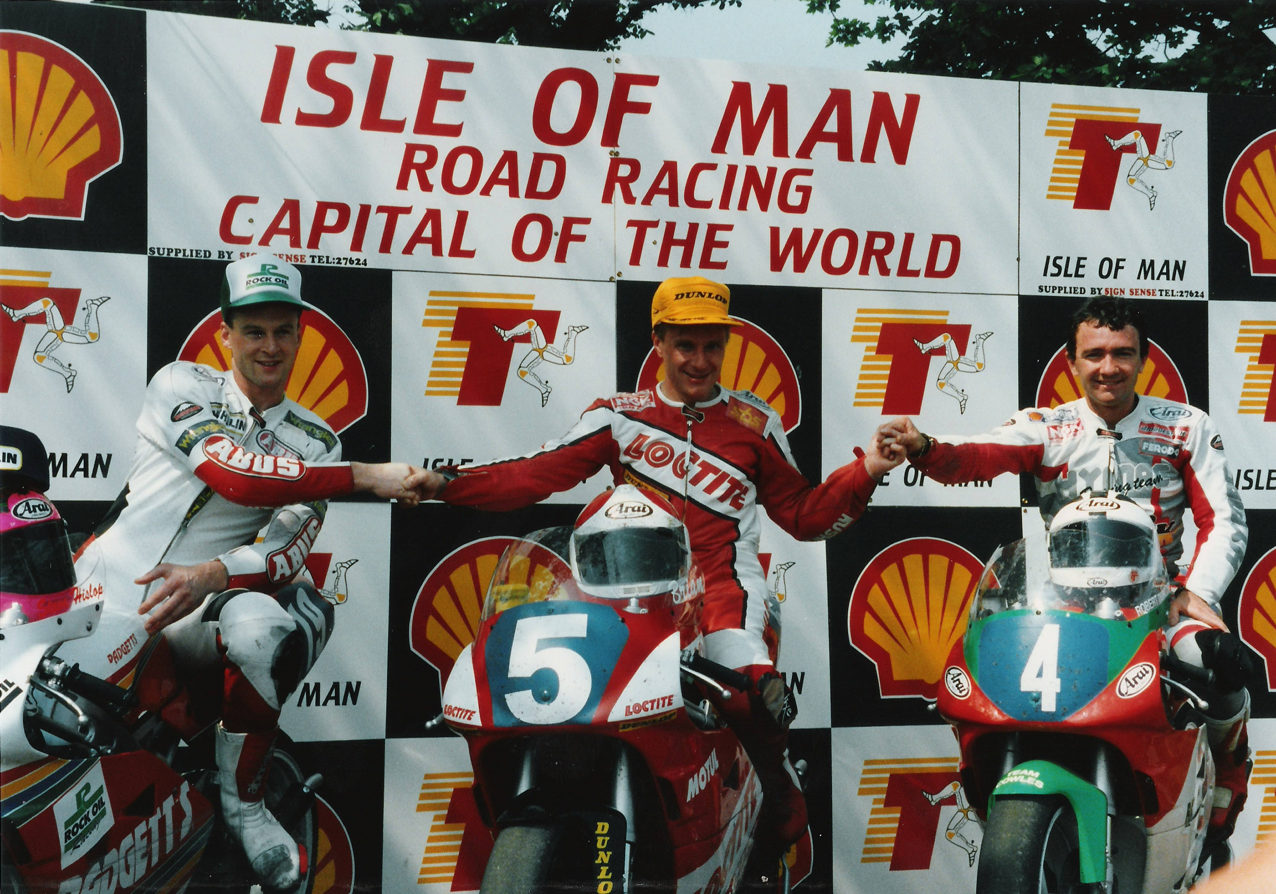 Steve Hislop, Brian Reid, Robert Dunlop at the TT92